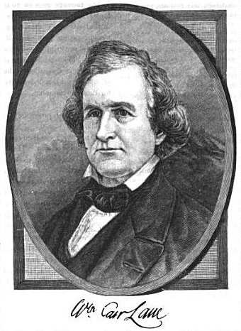 Drawing of William Carr Lane, first mayor of the city of St. Louis, Missouri